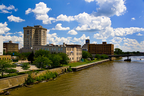 Taken by Geoff George - Saginaw, Michigan on a gloriously colorful summer day taken from the Johnson Street Bridge. Two properties are shown that are listed on the US National Register of Historic Places: Several buildings of the East Saginaw Historic Business District appear in the left half of the photo. The Michigan Bell Building is the tall structure in the center distance.